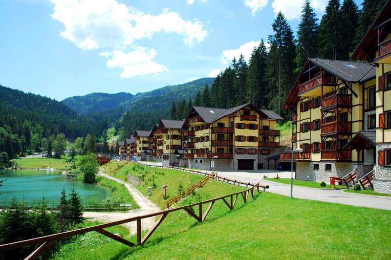 Mountain Resort Hrabovo